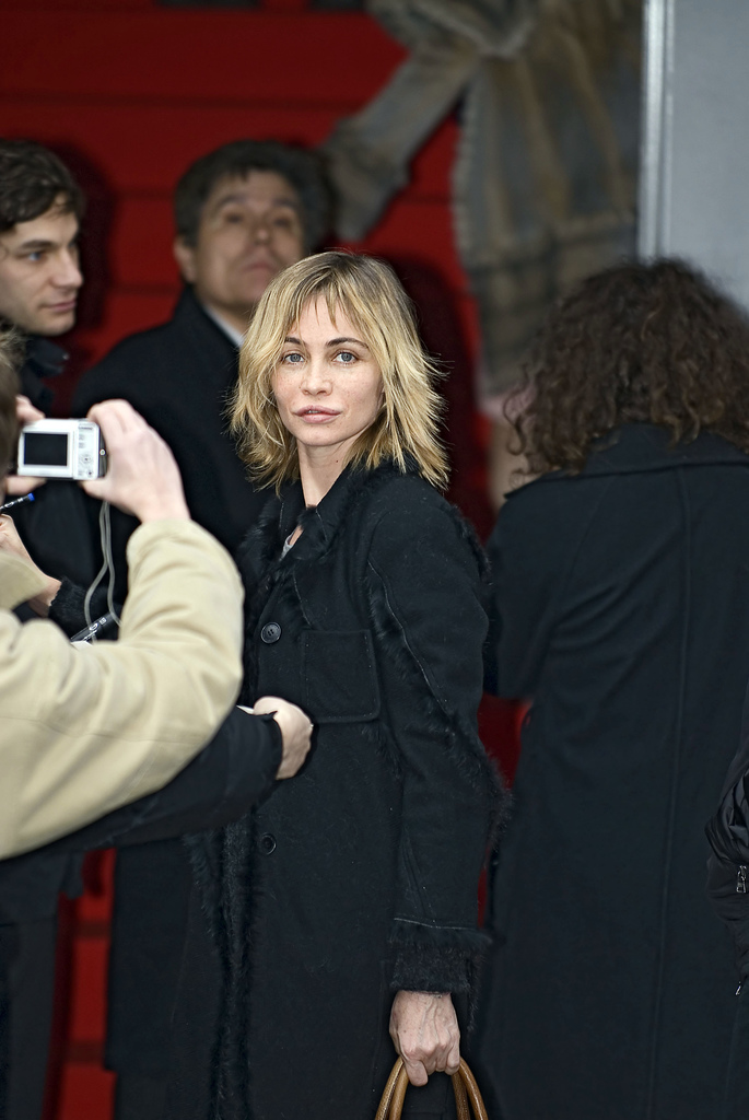 Sueing the cosmetic surgeon wouldn't call off the deal... Arrival for the press conference of "Les Témoins", Emmanuelle Béart, Hyatt Hotel, Potsdamer Platz, Berlin